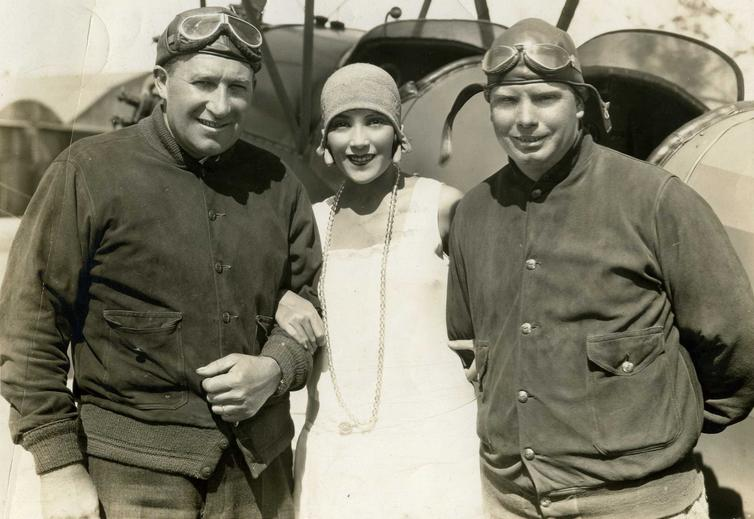 Left to right: Robert Kurrle (cinematographer), Dolores del Río, and Charles Lippiat (aviator) on the set of Ramona - publicity still (cropped).